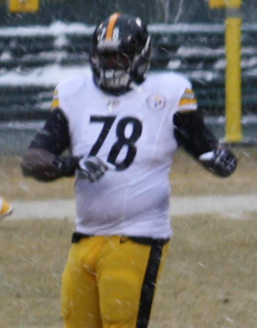 Pittsburgh Steelers player Guy Whimper during warmups.